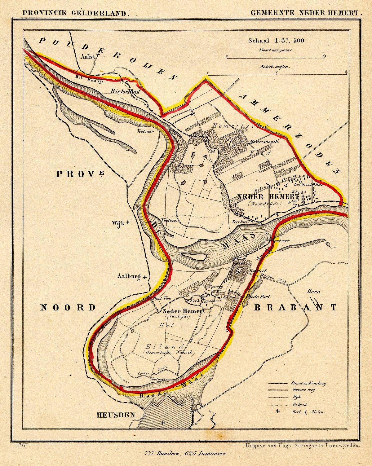 Map from 1867 of the former municipality Nederhemert (Province of Gelderland, Netherlands). Nederhemert was annexed by the municipality of Kerkwijk in 1955. Subsequently, in 1999, Kerkwijk was swallowed by the municipality of Zaltbommel.